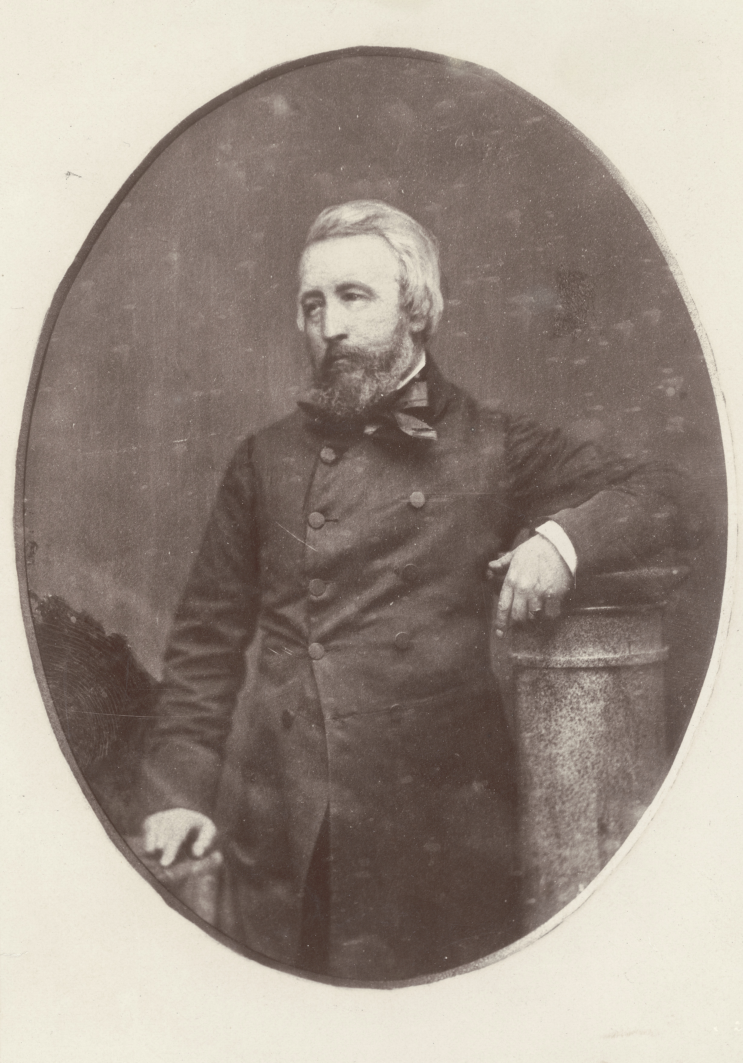 Portrait of John Skinner Prout, sepia toning; oval image 14 x 11cm